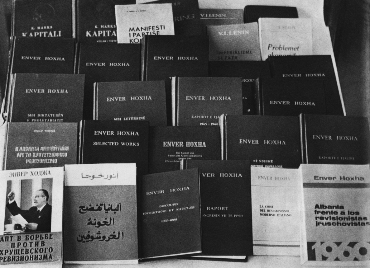 A photo comprised primarily of translated works by Albanian leader Enver Hoxha.